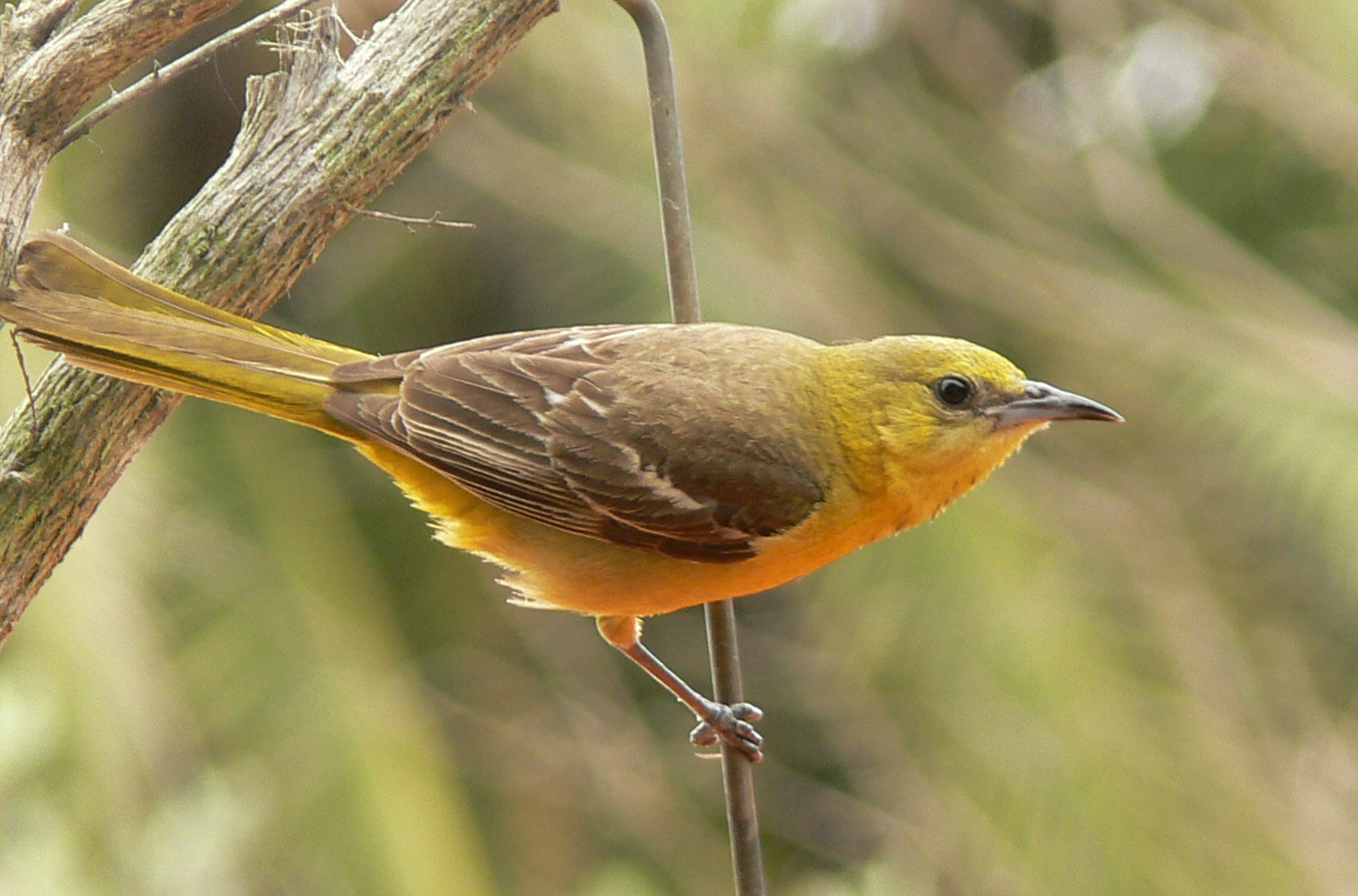 Icterus cucullatus female She is much brighter yellow than her offspring which I posted last week. Out of the camera, with just a crop at the bottom. View On Black